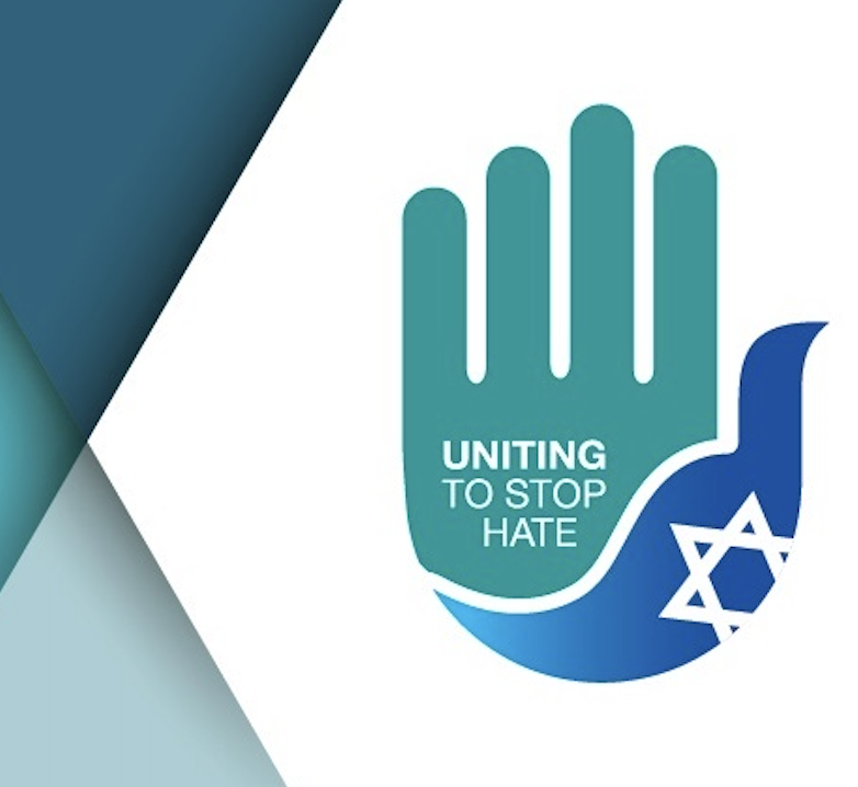 This file is the logo used by the Israeli Foreign Ministry for their 6th annual conference for the Forum of combatting anti-semistism